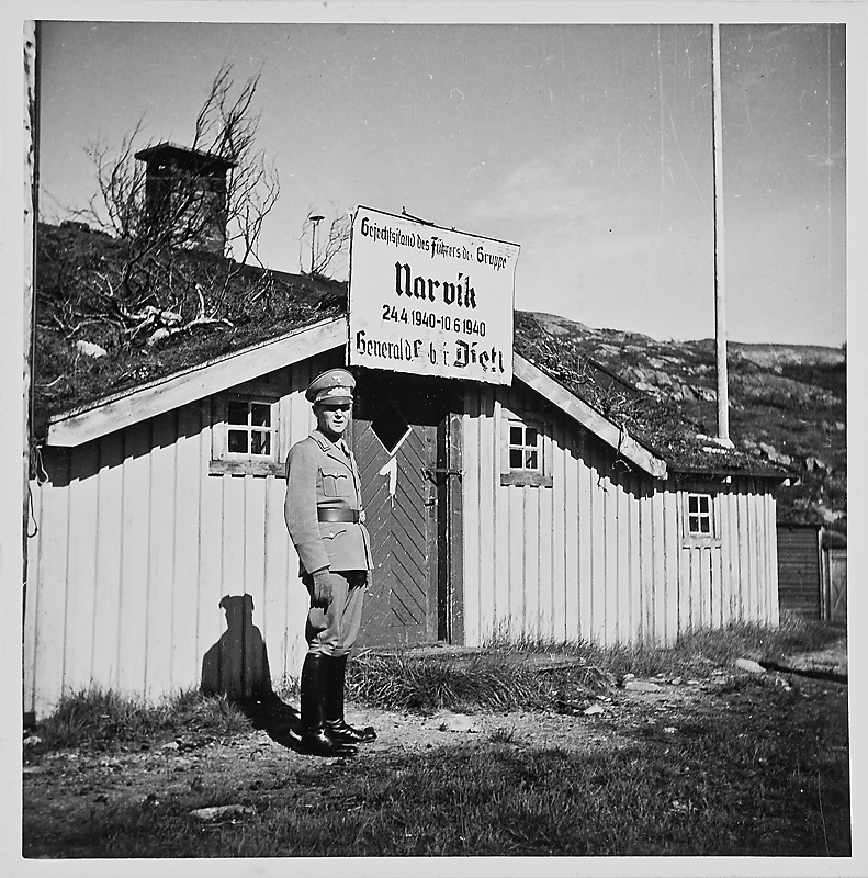 Image from "Photo Album from Terboven's journey to Nothern Norway and Finland 10–27 July 1942" (Mit dem Reichskommissar nach Nordnorwegen und Finnland 10. bis 27. Juli 1942), 375 images uploaded to www. by Riksarkivet (National Archives of Norway) 2012. See scanned album here